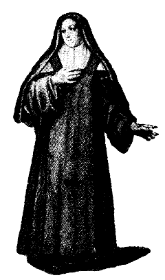 A "bare foot" Carmelite nun